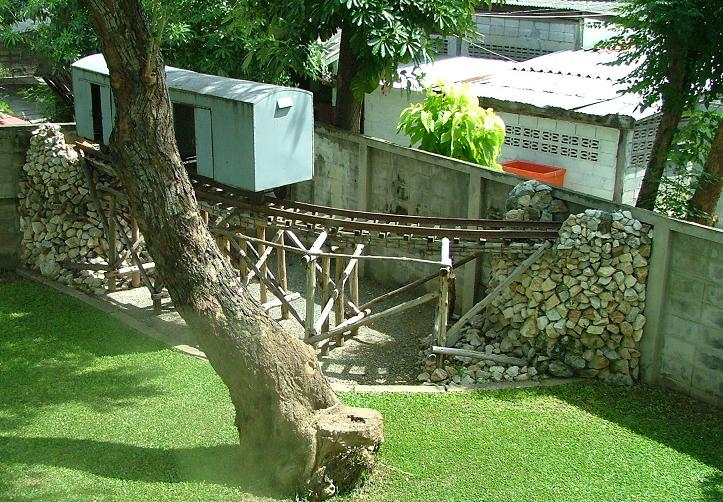 Rail Museum Kanchanaburi, Thailand.